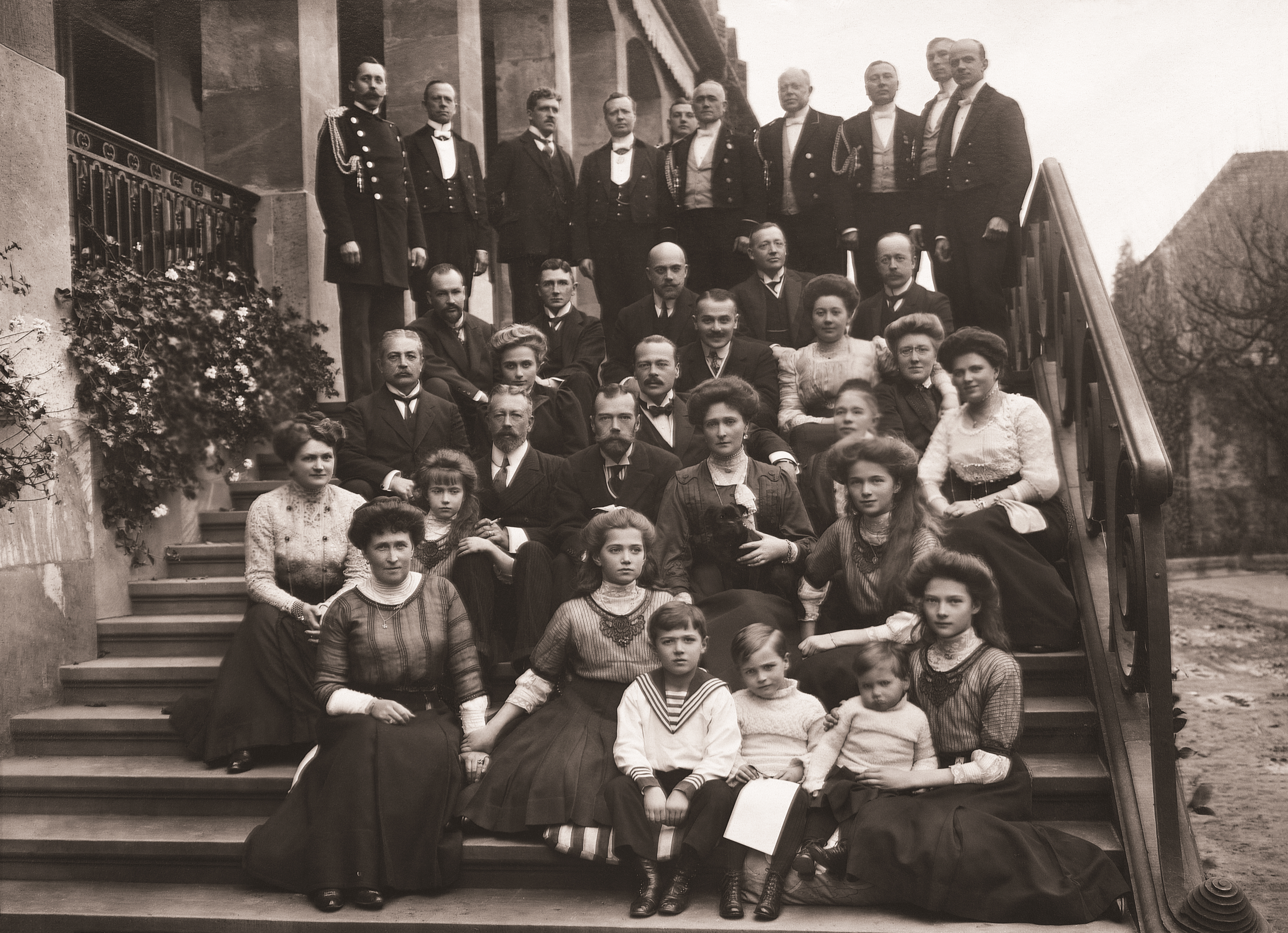 Russian and Hessian family group at Wolfsgarten.Children first row: Tsarevich Alexei of Russia, Georg Donatus and Ludwig of Hesse, Tatiana of Russia.Second row: Irene of Prussia, Maria and Olga of Russia.Third row: Grand Duchess Eleonore of Hesse, Anastasia of Russia, Heinrich of Prussia, Tsar Nicholas II and Tsarina Alexandra Feodorovna. Above Nicholas II: Grand Duke Ernst Ludwig as well as Russian and Hessian staff and servants.